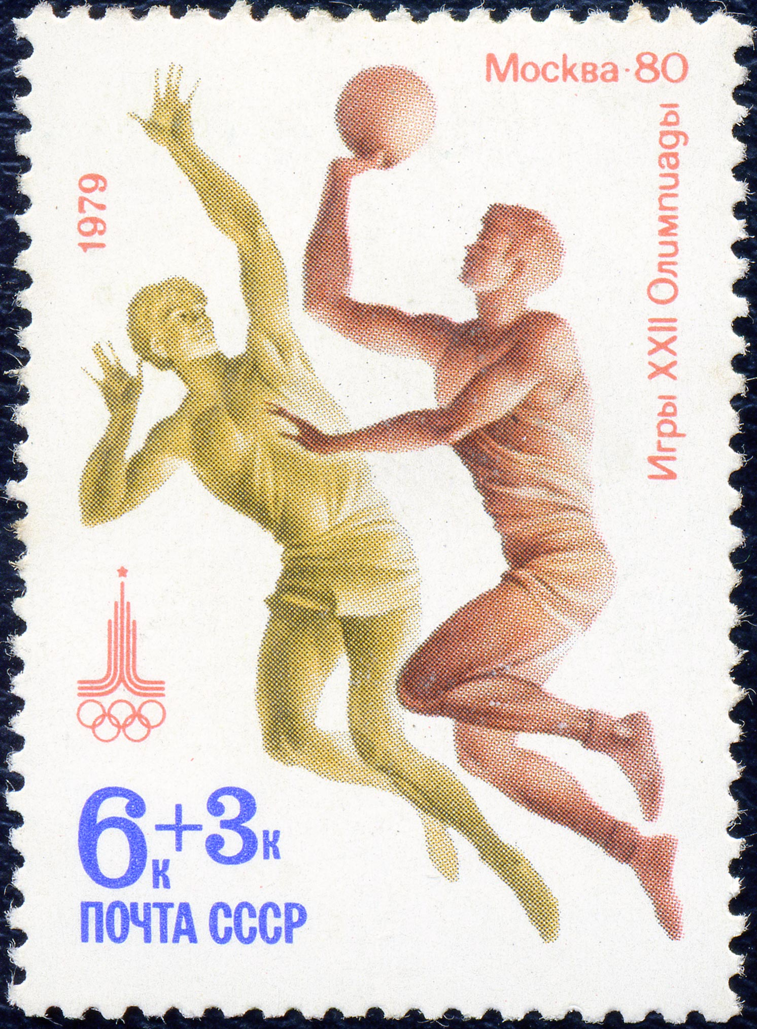 USSR postage stamp. 1979. XXII Summer Olympics. Basketball